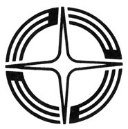 Yoshida Shizuoka chapter